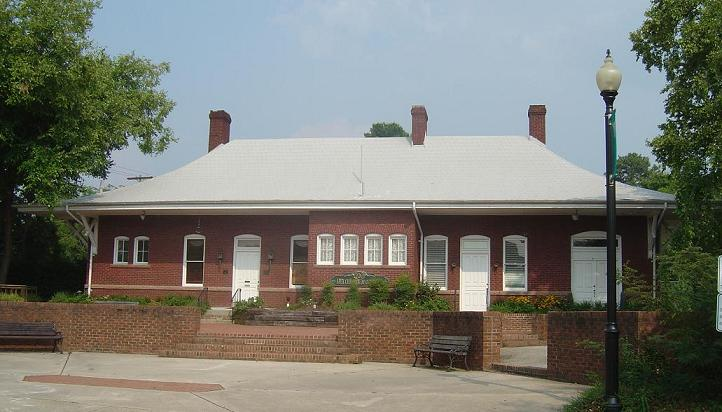 Pic of Apex Union Depot, taken by Seth Ilys, 20 July 2004.